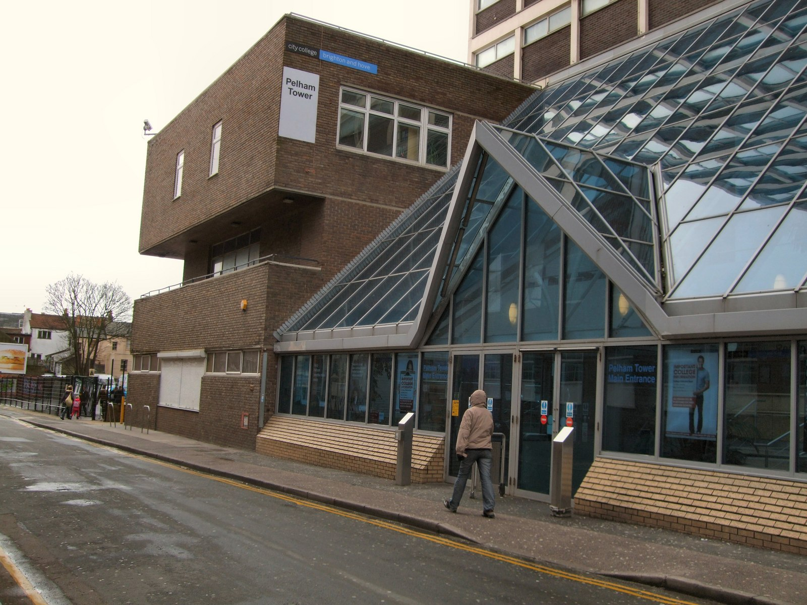 City College City College Brighton & Hove (CCB) is a large general further education college. Its main campus is at Pelham Street, Brighton. It was formerly known as Brighton College of Technology and before that Brighton Technical College. College Web site